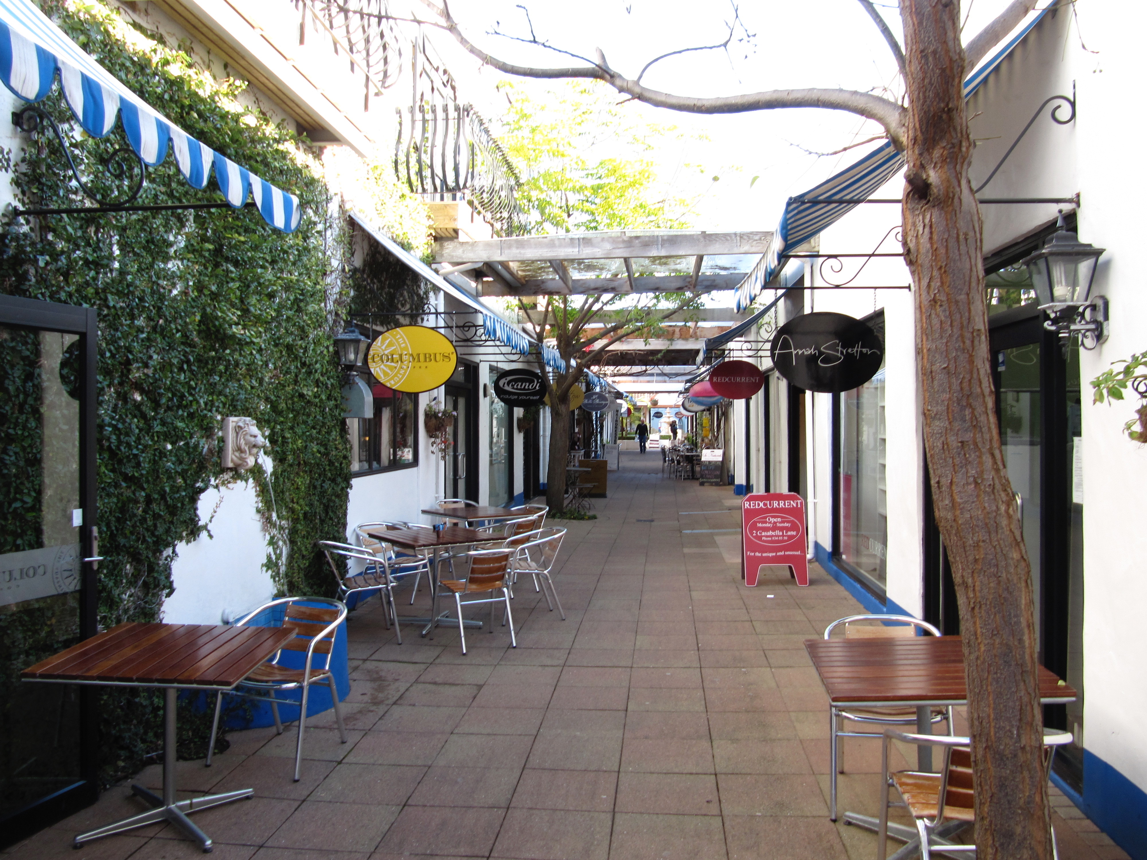 Cassabella Lane, Hamilton